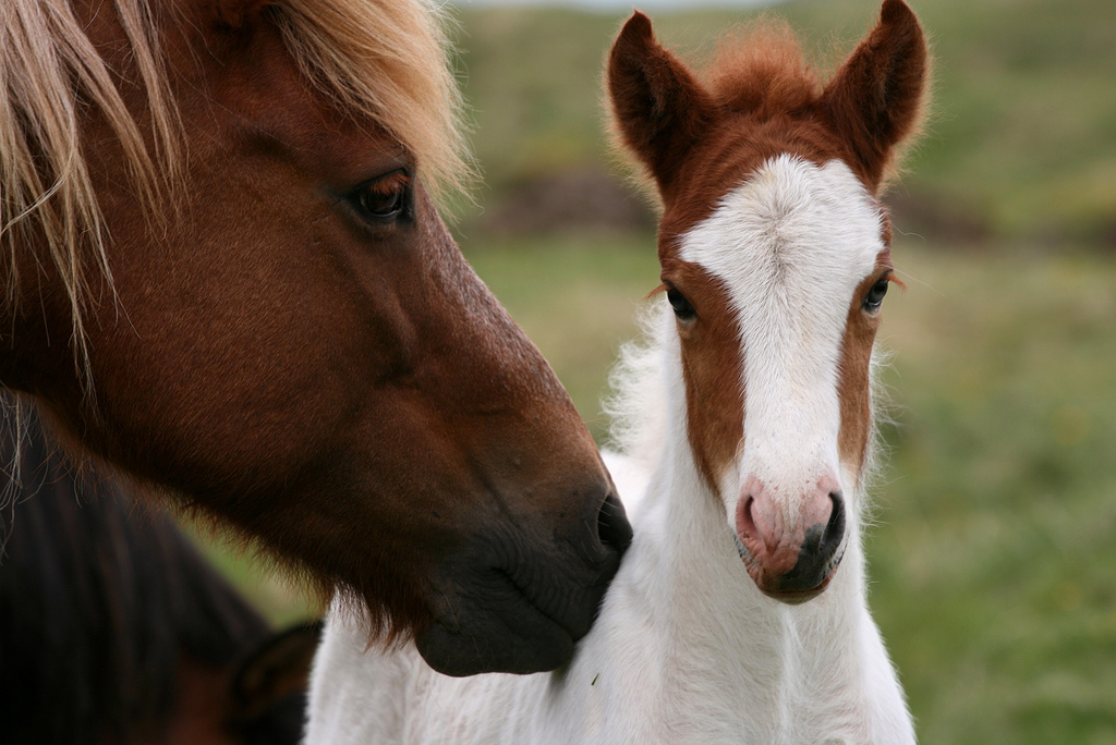 An Icelandic mare with her chestnut tobiano foal.